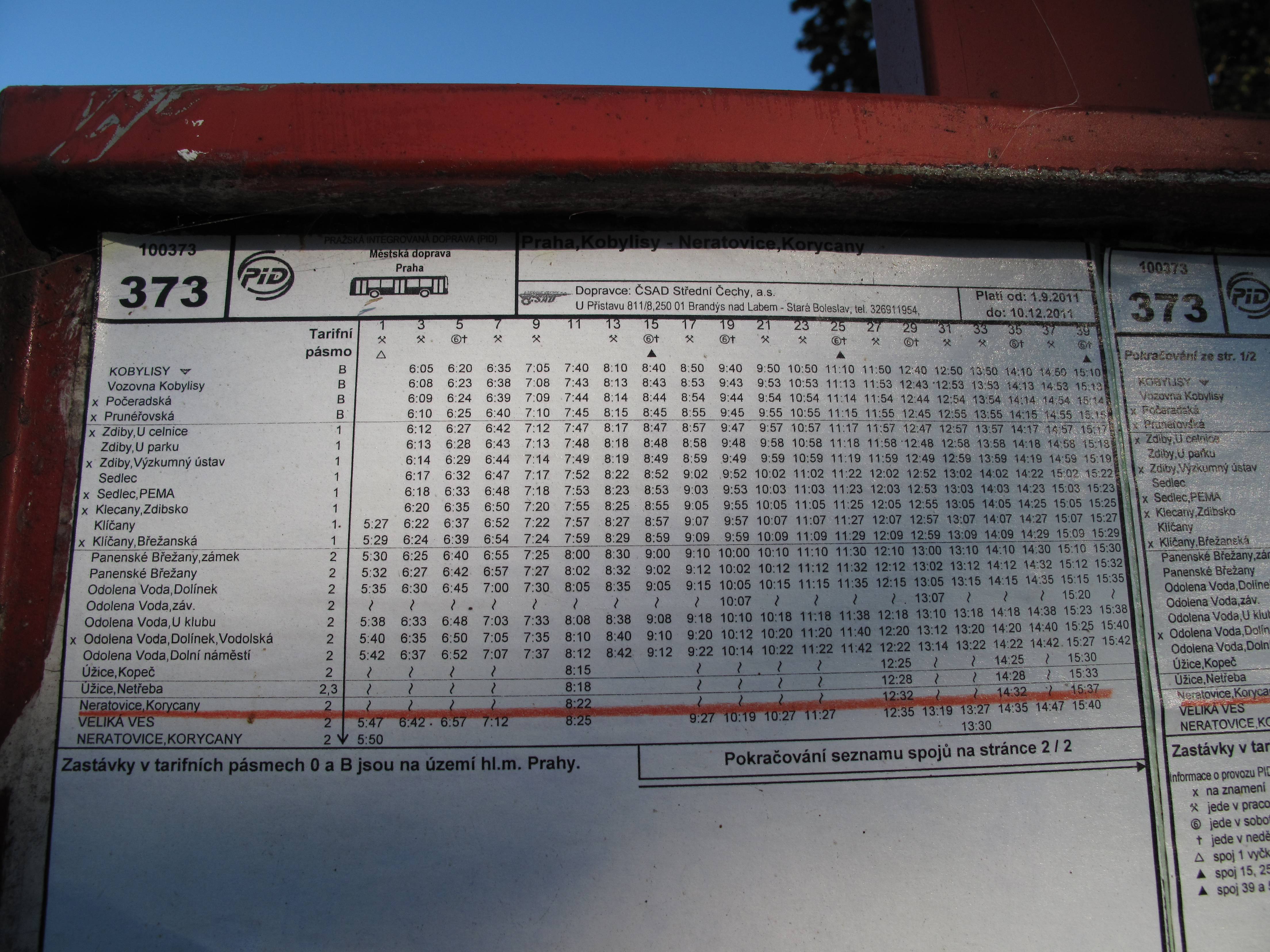 Bus schedule in Korycany village of bus line 373 operated by ČSAD Střední Čechy, Mělník District, Czech Republic.